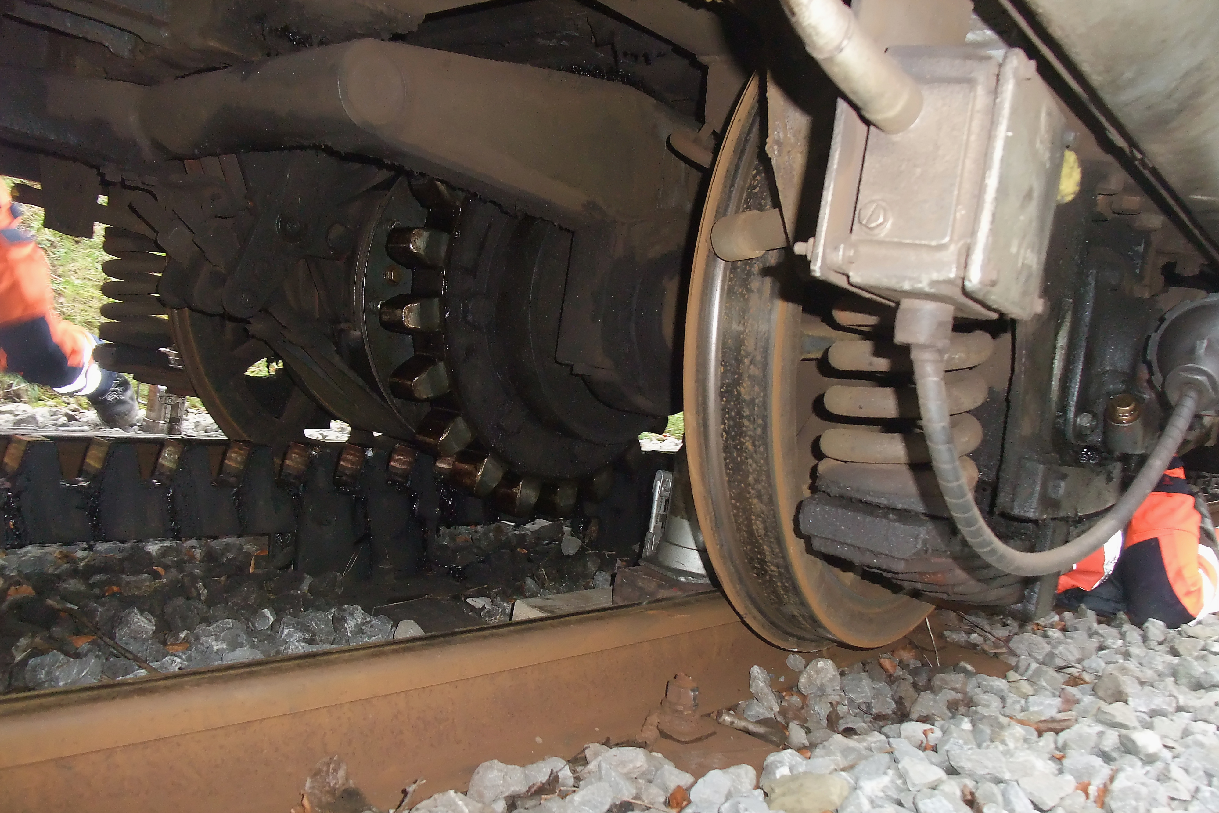 During a brake test, which is normally done from time to time, the rear axle of the railcar jumped from the rails. Mountain railway Rheineck-Walzenhausen, Switzerland, Dec 25, 2009. (3/4) See where this picture was taken. [?]